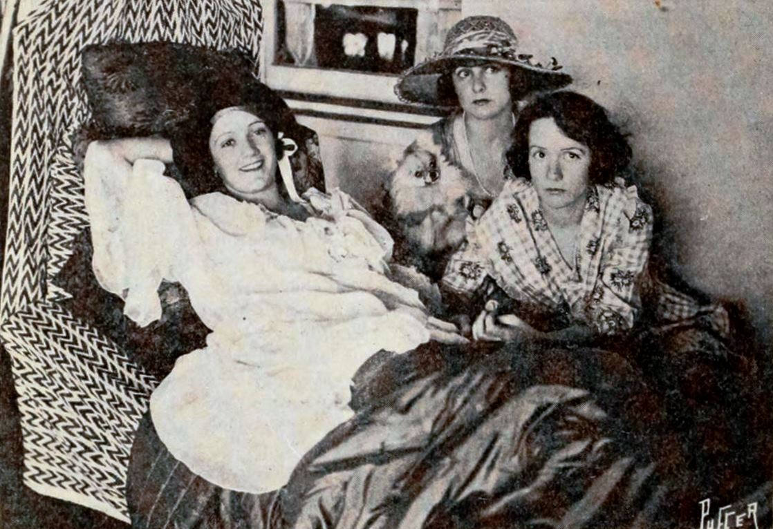 Constance, Norma, and Natalie Talmadge at Constance's bungalow at Bayside, Long Island, New York, on page 56 of the August 30, 1919 Exhibitors Herald.